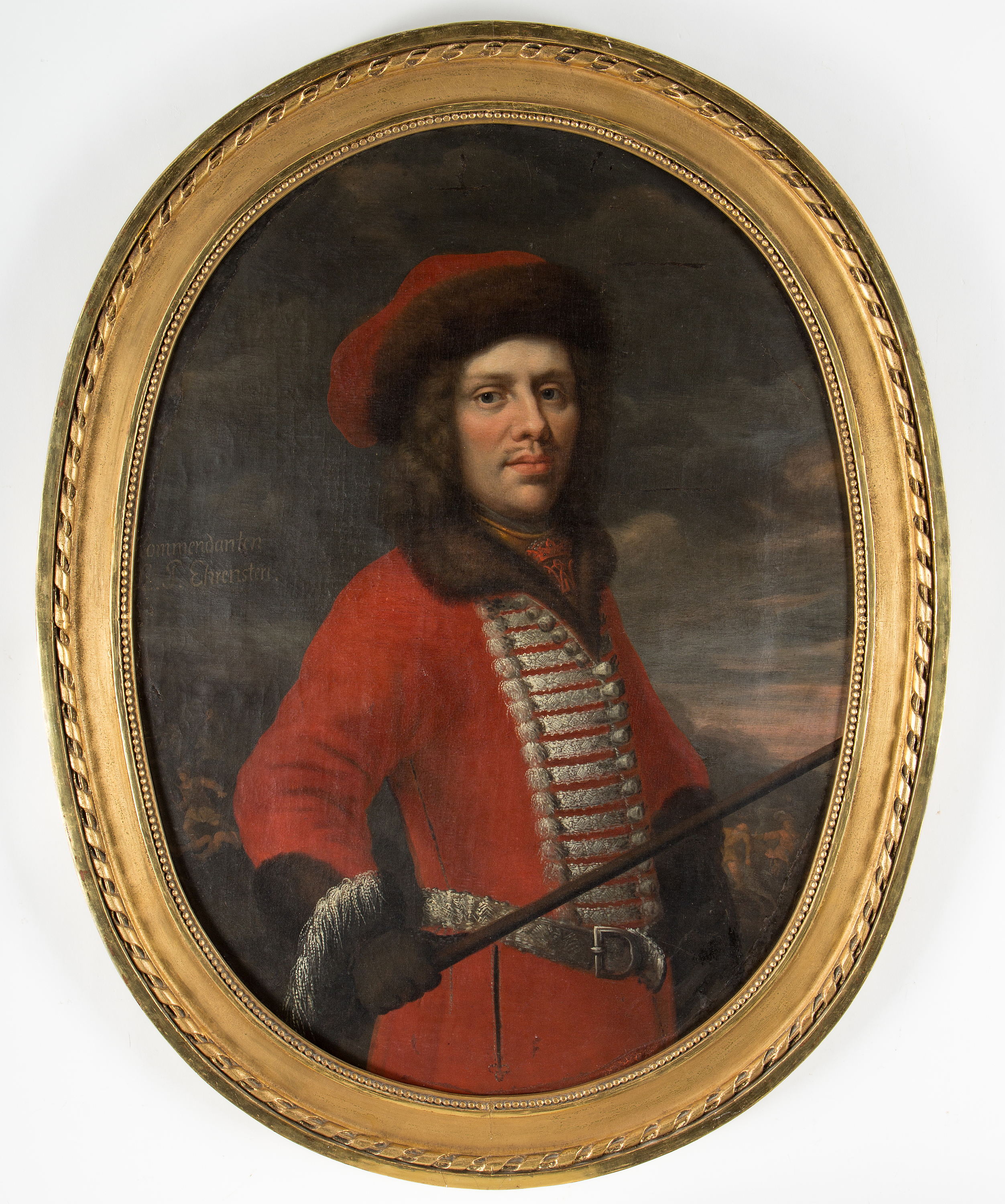 Portrait of the Swedish commandant LP Ehrenstéen, by David Richter the Elder.